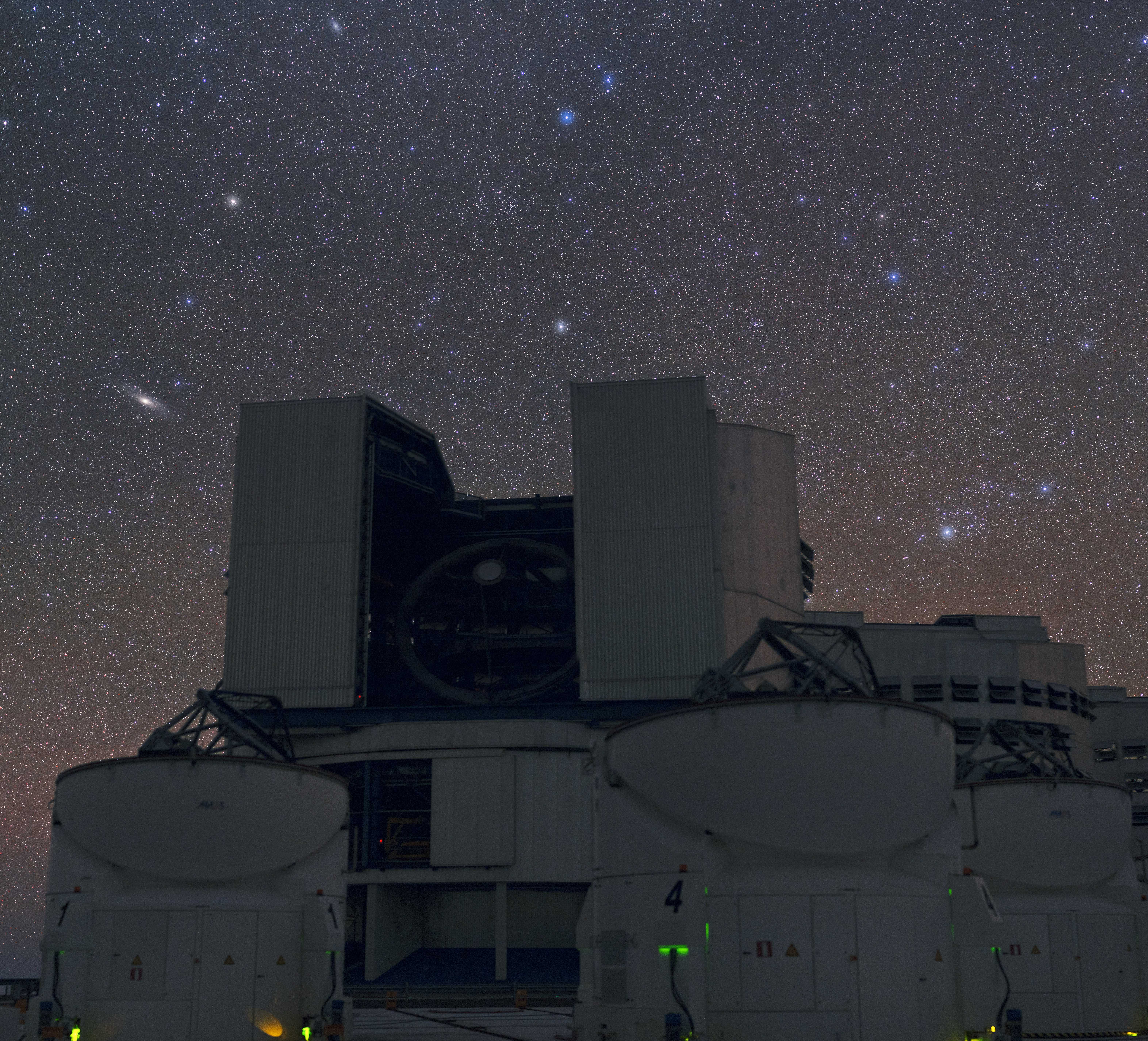 This stunning image of the clear Chilean sky shows a speckling of bright stars and distant galaxies across the frame, all suspended above one of the four Unit Telescopes (UTs) of the Very Large Telescope (VLT). This is the fourth UT and it is known as Yepun (Venus). Two objects seen in this frame are more famous than their neighbours. In the left hand portion of the image is a fairly prominent galaxy that forms a streak across the sky – Messier 31, or the Andromeda Galaxy. Upwards and to the right of this smudge is a bright star, which in turn points upwards to a galaxy that lies roughly along the same extended line. This star is named Beta Andromedae – otherwise known as Mirach – and the second galaxy is Messier 33 (at the top of the frame). These two galaxies are thought to have interacted in the past, forming a bridge of hydrogen gas that spans the gap between them. This image was taken by ESO photo ambassador Babak Tafreshi.